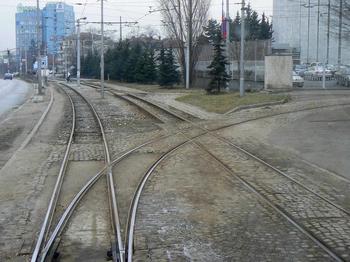 Triangular wye